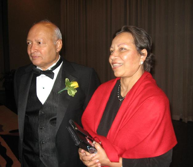 Thomas Kailath with his wife, Sarah, at the 2007 Institute of Electrical and Electronics Engineers (IEEE) Medal of Honor ceremony.